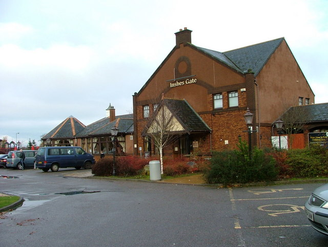 Brewers Fayre at Inshes Gate This popular bar and restaurant is situated next door to a Premier Inn and is also very close to Inshes Retail Park.